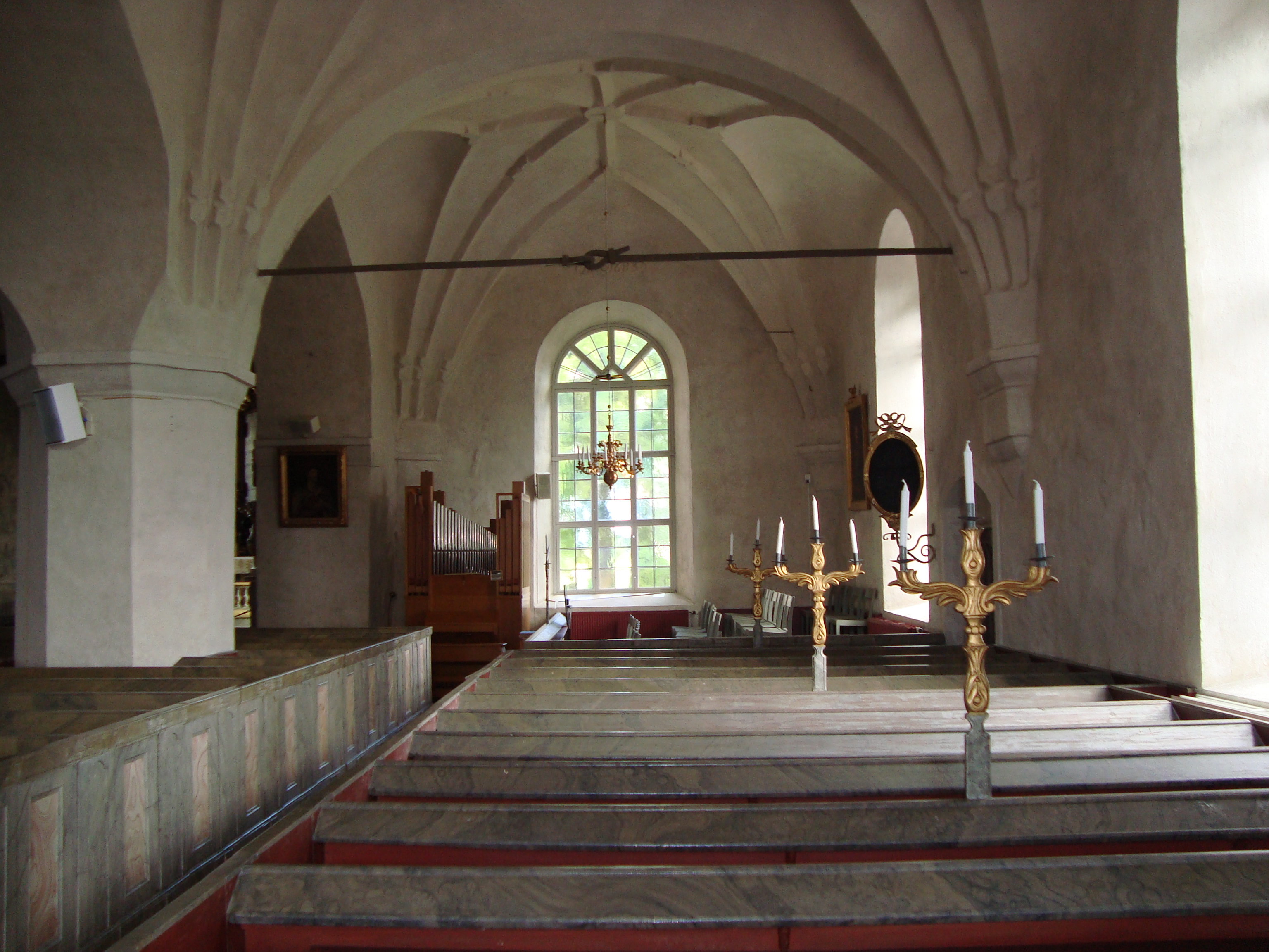 Stora Skedvi's church, Säter municipality, Sweden